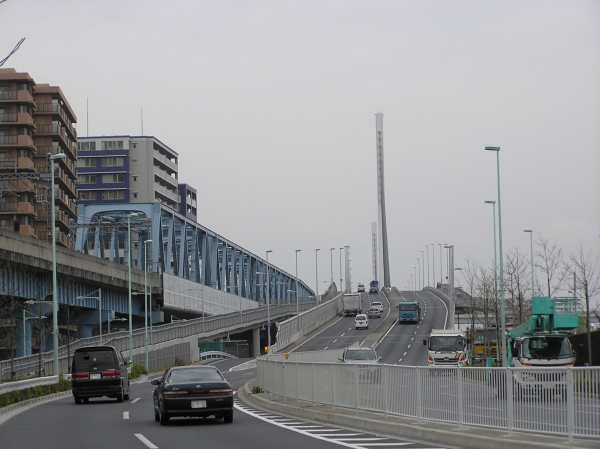 撮影地 Place of photo荒川中川橋梁撮影の状況 How to take公道から撮影 At public roadトリミングの有無 Cropped or not非トリミング Not Cropped内容 Description東西線荒川中川橋梁